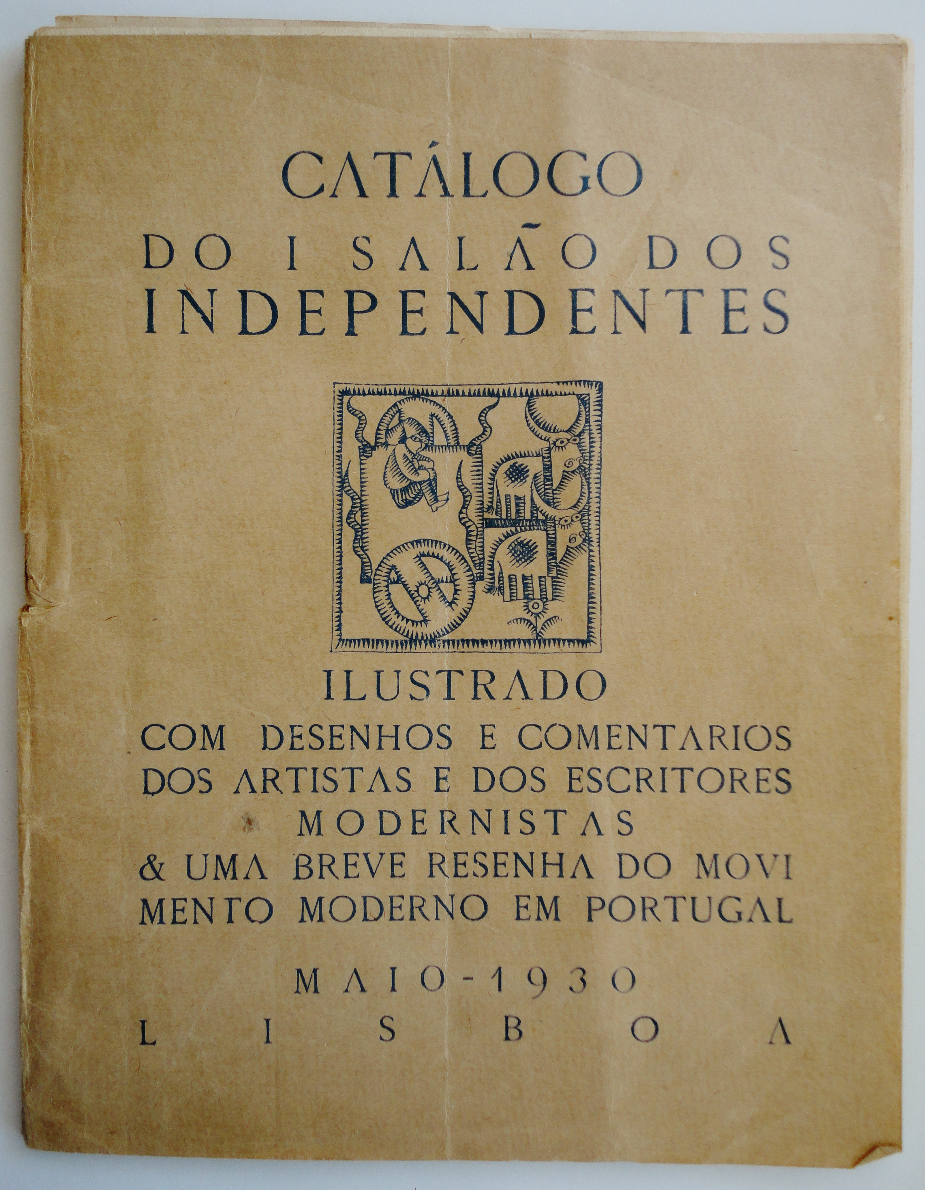 Exhibition catalogue cover: I Salão dos Independentes, SNBA, 1930